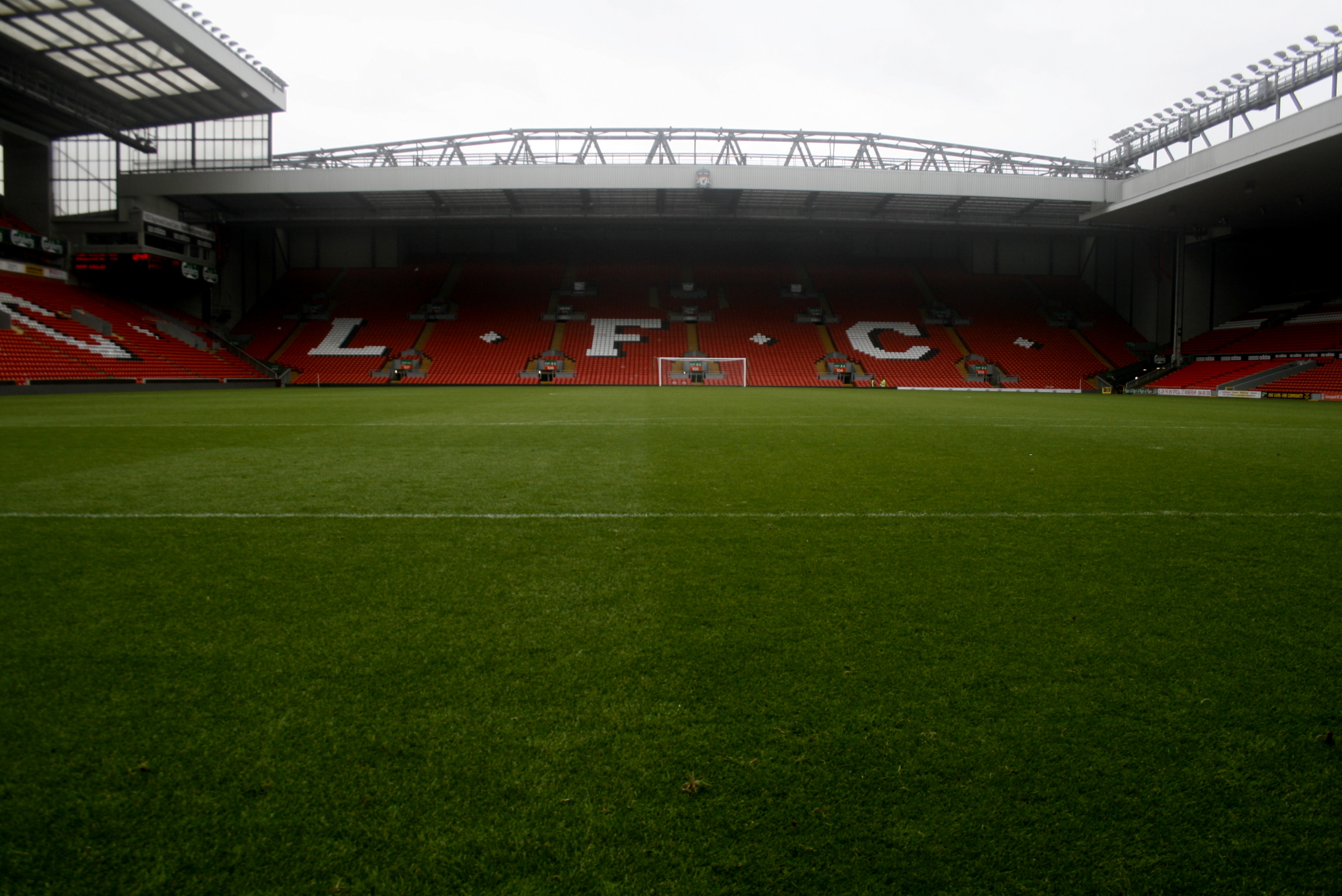 View of the Kop end at Anfield, home of Liverpool F.C.